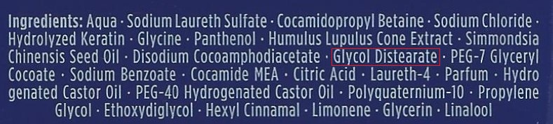 ingredients of shampoo